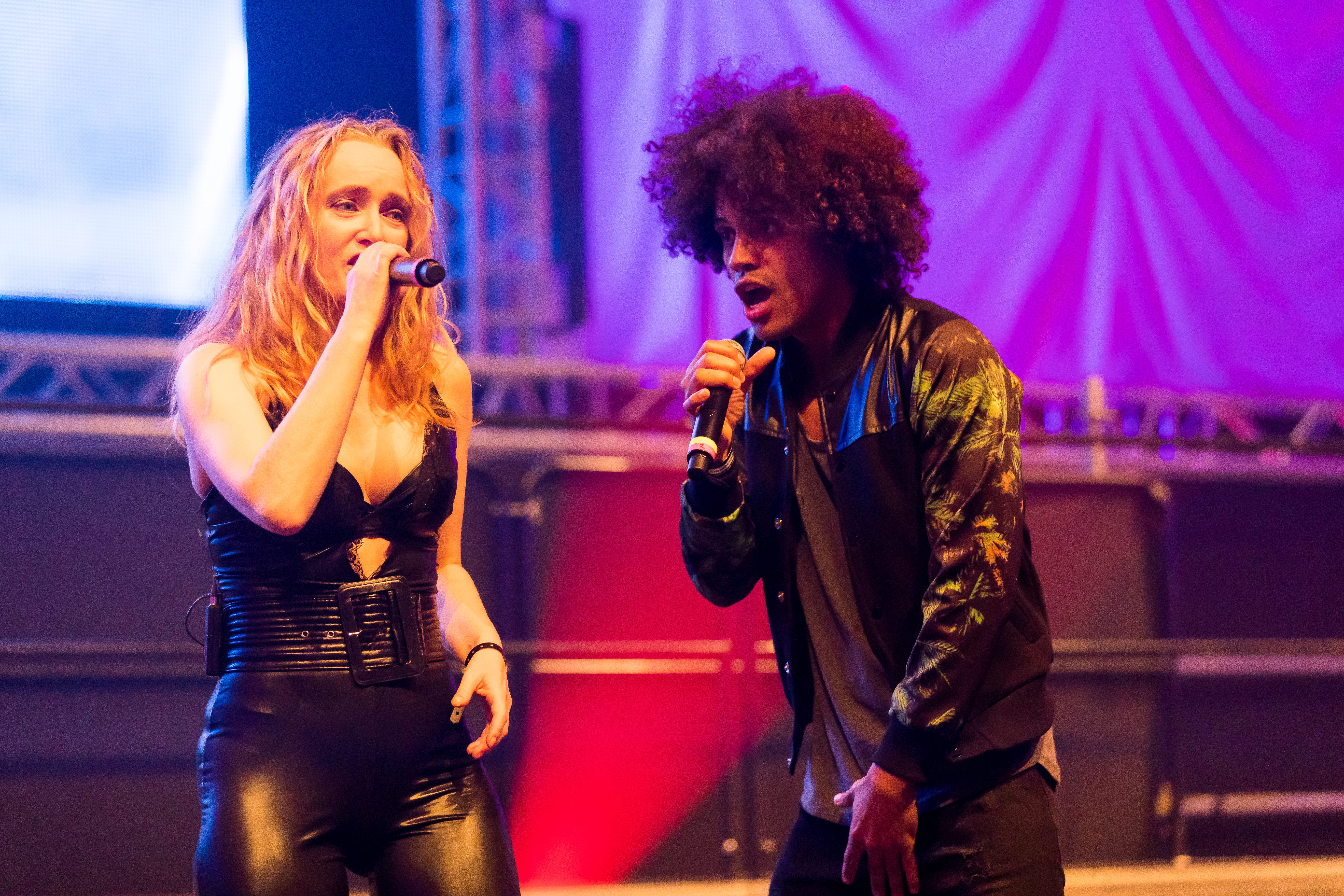 E-Rotic during Sunshine Live - 90er Live on Stage at Maimarkt Halle, Mannheim, Baden Württemberg, Germany on 2016-11-26, Photo: Sven Mandel DJ Falk, E-Rotic, Twenty 4 Seven, Rednex, Vengaboys, Masterbox feat. Beatrix Delgado, 2 Brother on the 4th Floor, 2 Unlimited, Interactive, Charly Lownoise, Marusha